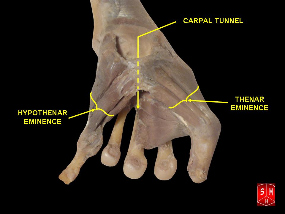 Anatomy of thenar and hypothenar eminences